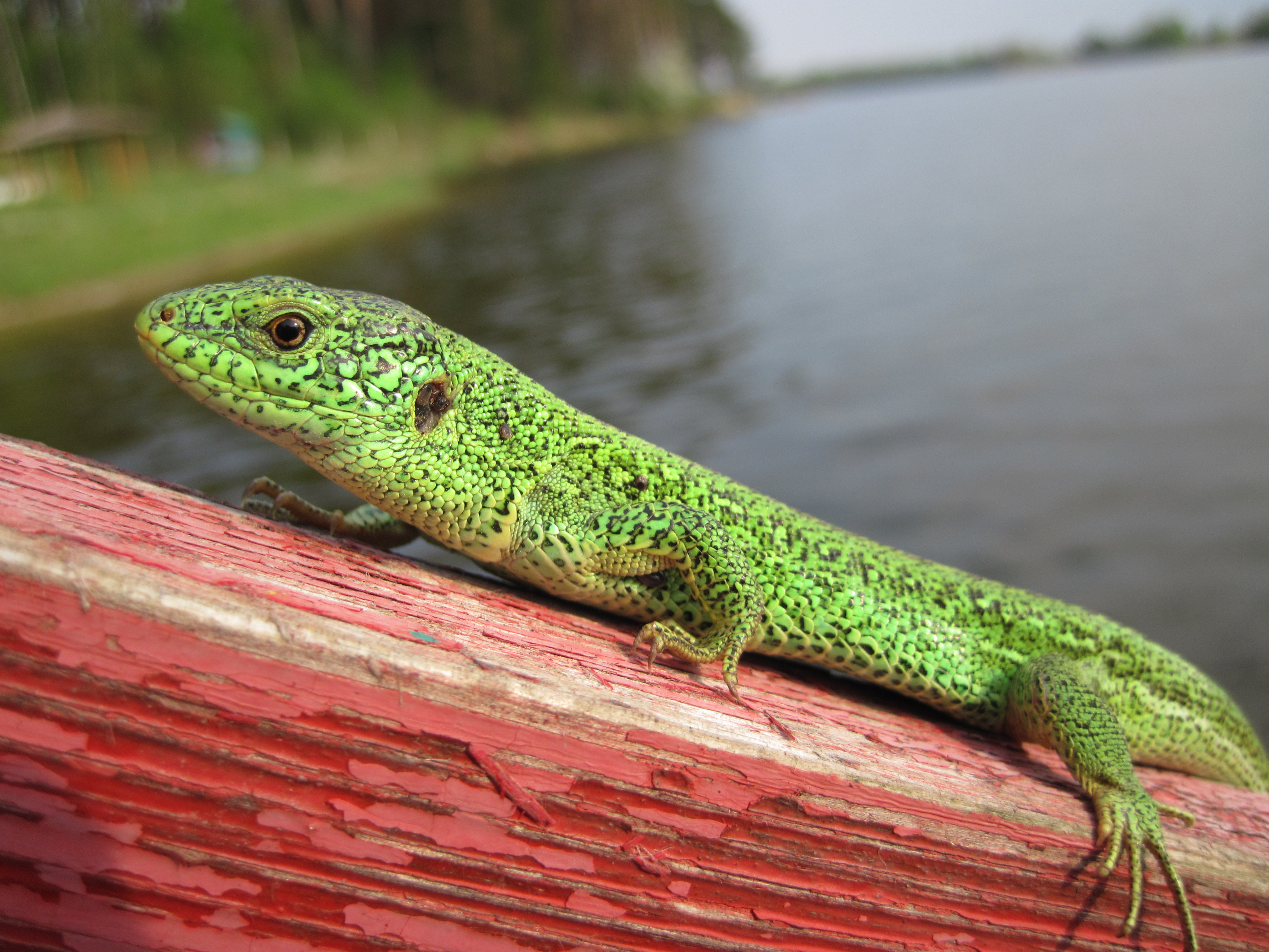 Ukraine, green lizard